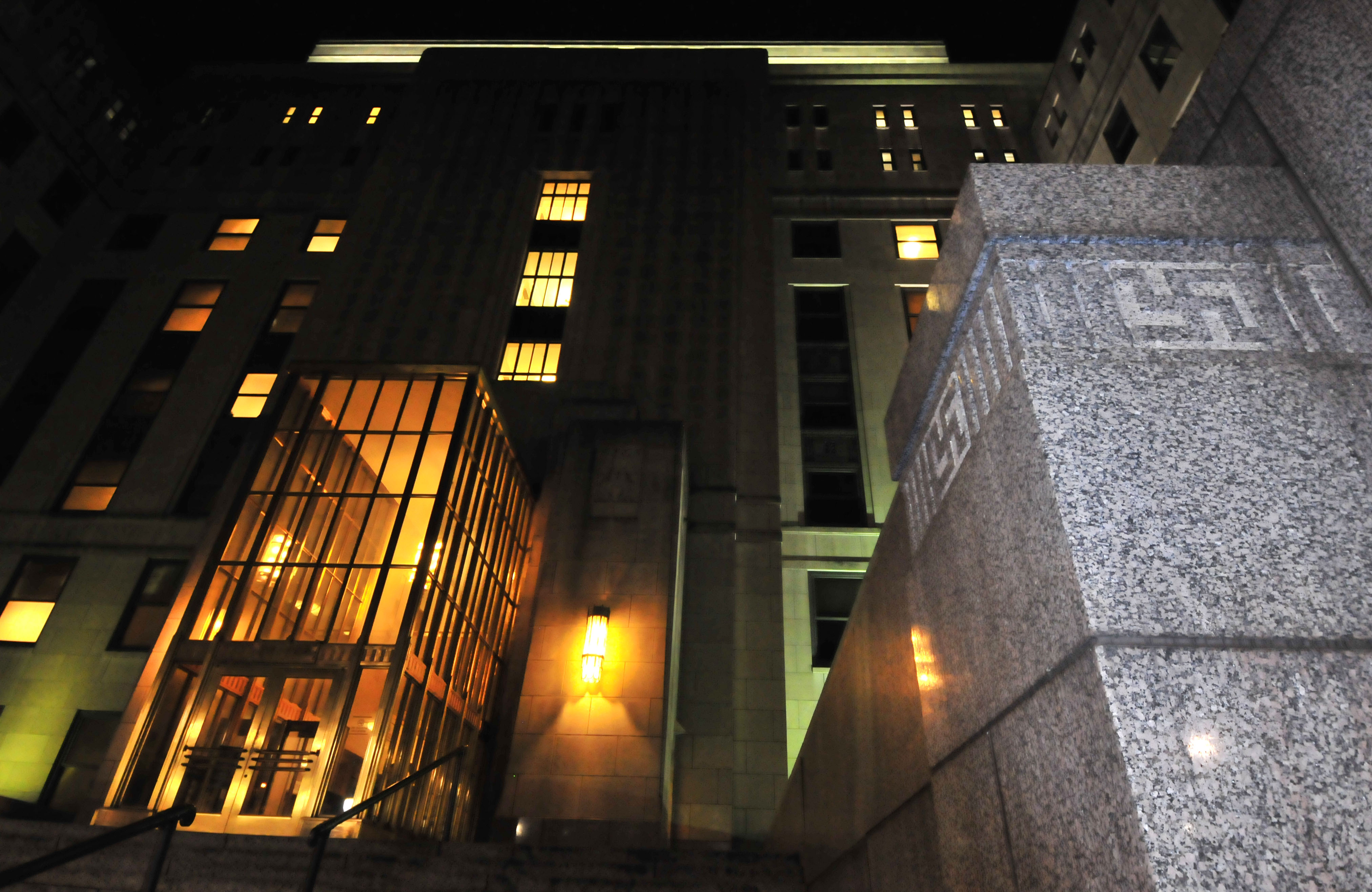 Jefferson County Courthouse